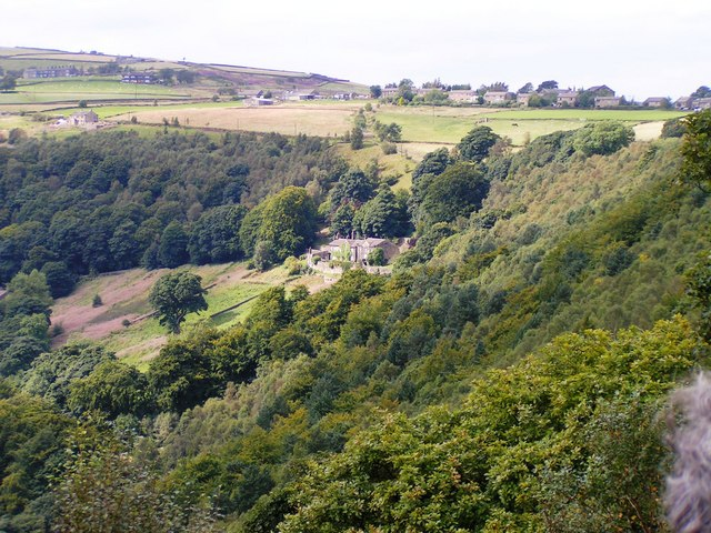 Avron Foundation, Colden Valley Picture is taken (with zoom) from Heptonstall. Subject is a former home of Ted Hughes